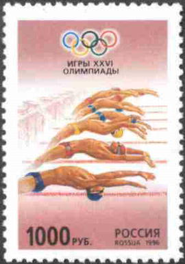 Russia stamp no. 297, commemorating the 1996 Summer Olympics.